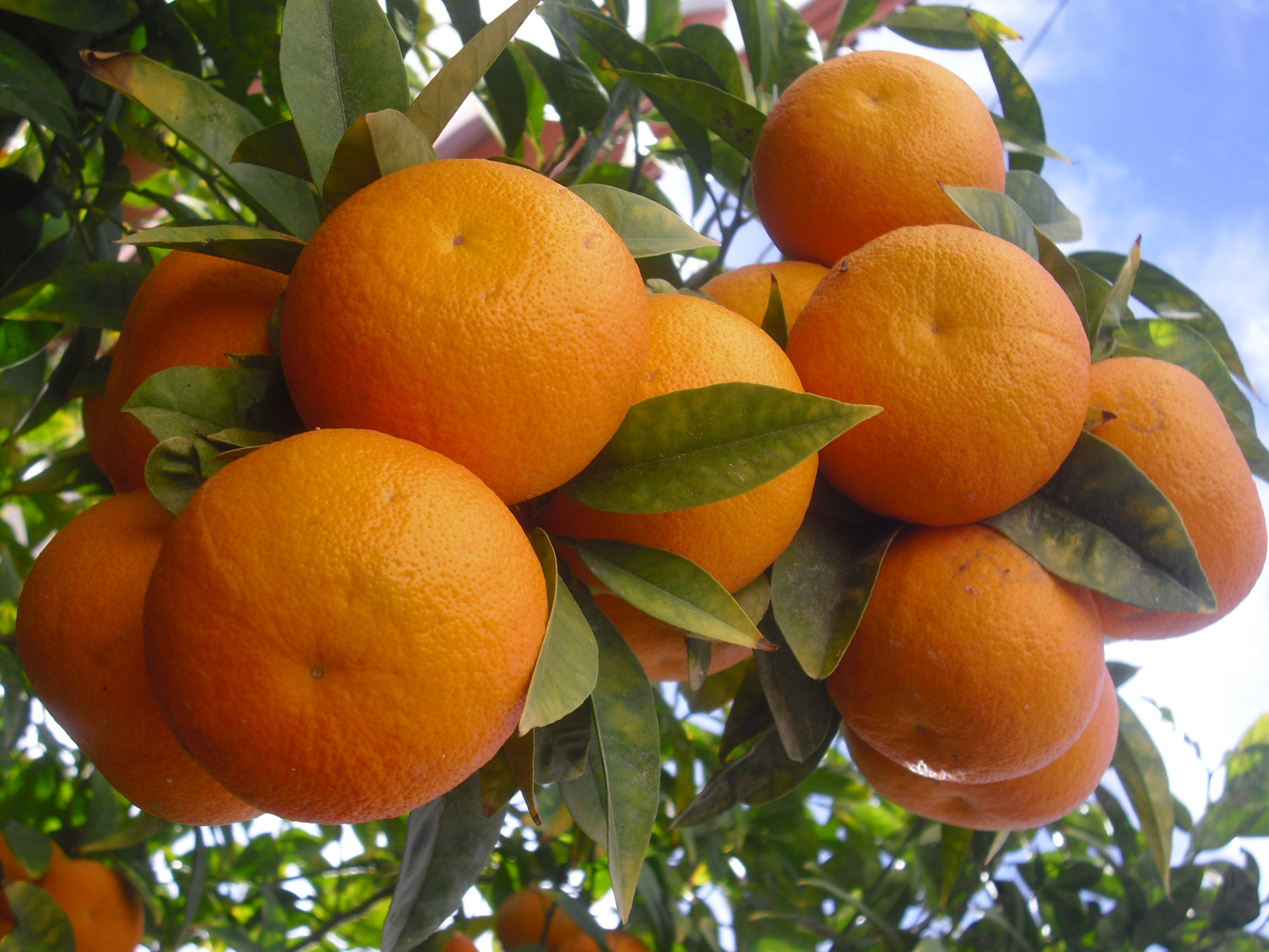 Oranges in a orange tree.